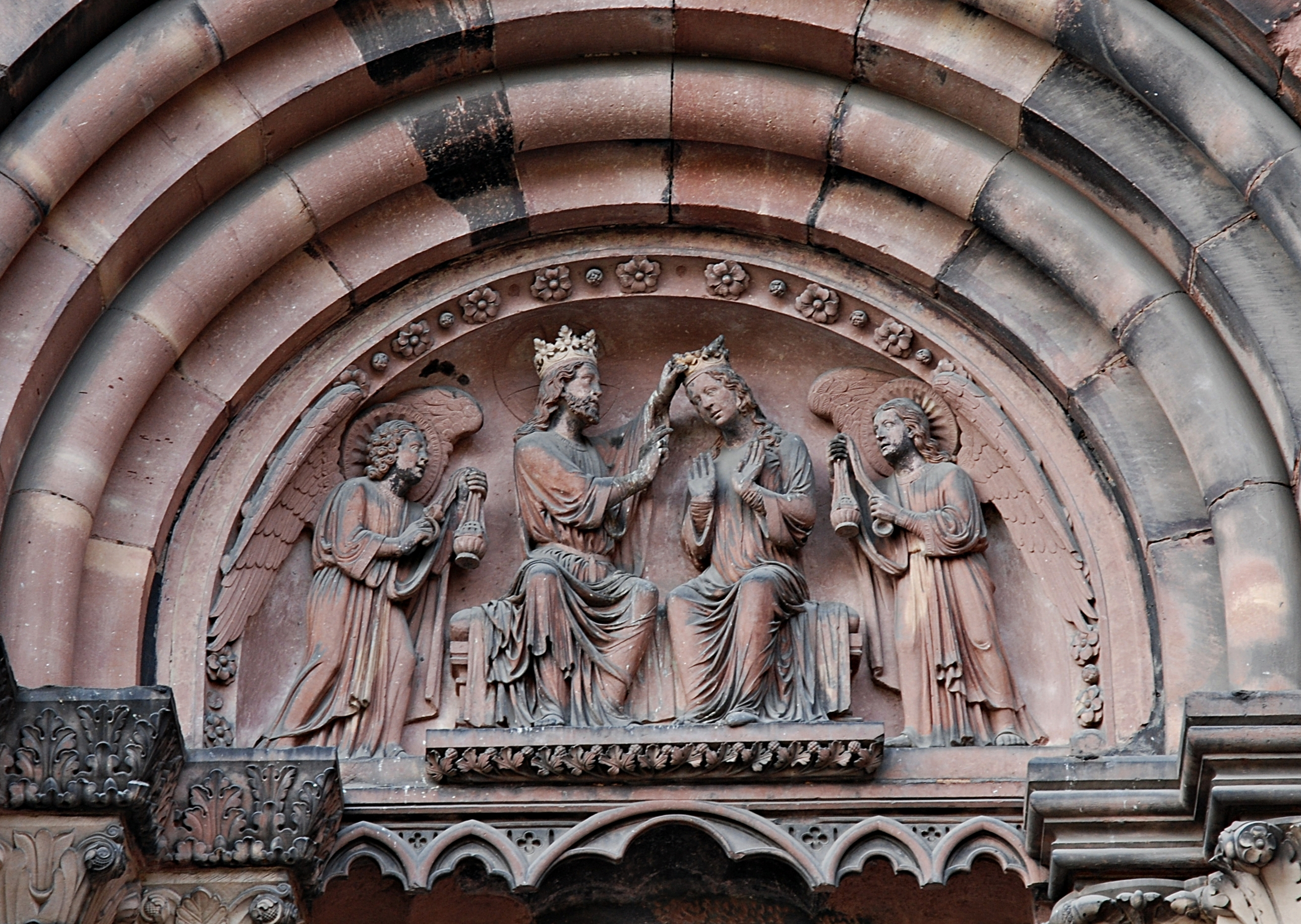 South portal of Notre-Dame cathedral in Strasbourg